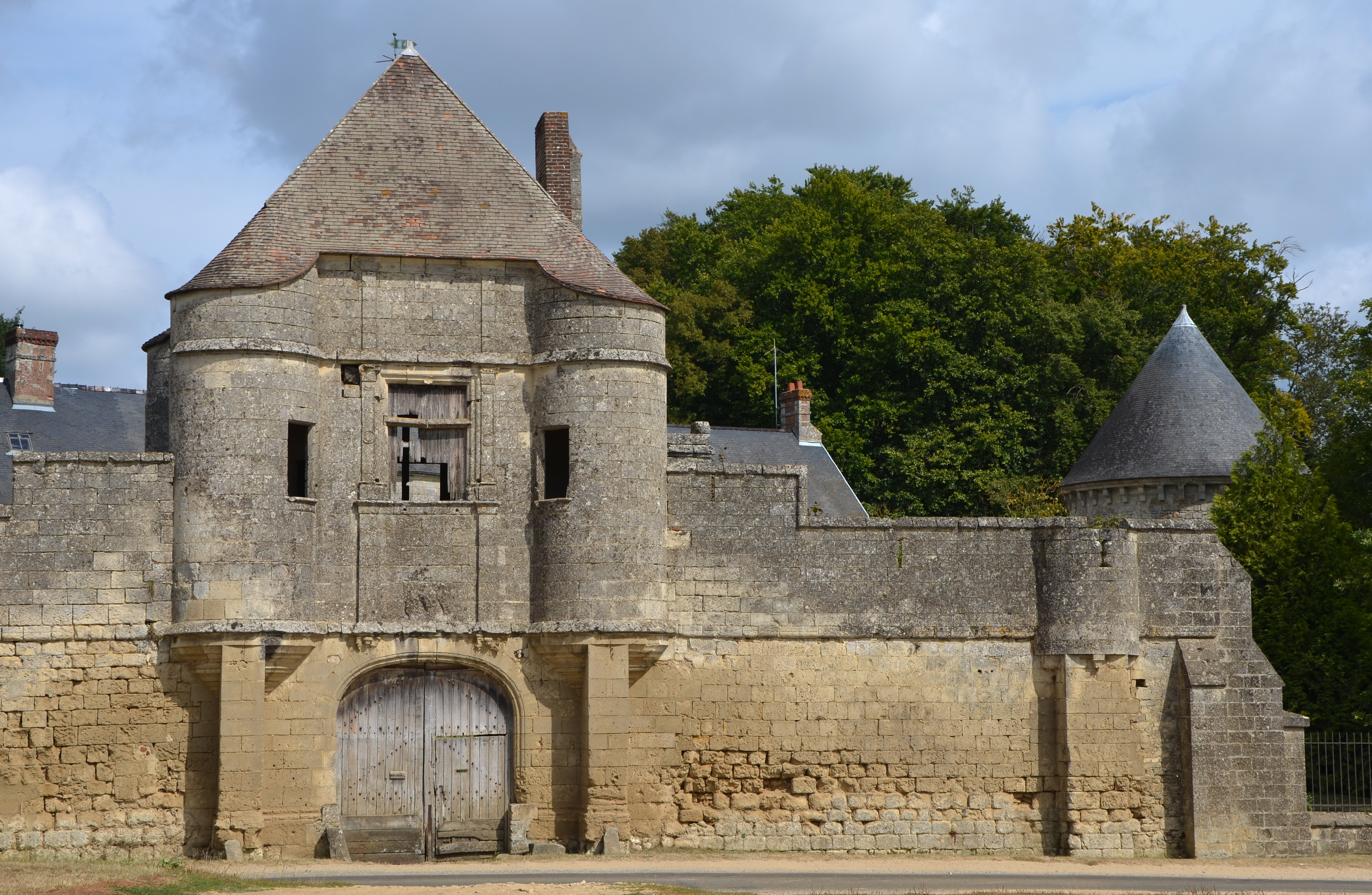 Walled enclosure of the castle Noüe in Villers-Cotterets, Aisne, Picardie, France